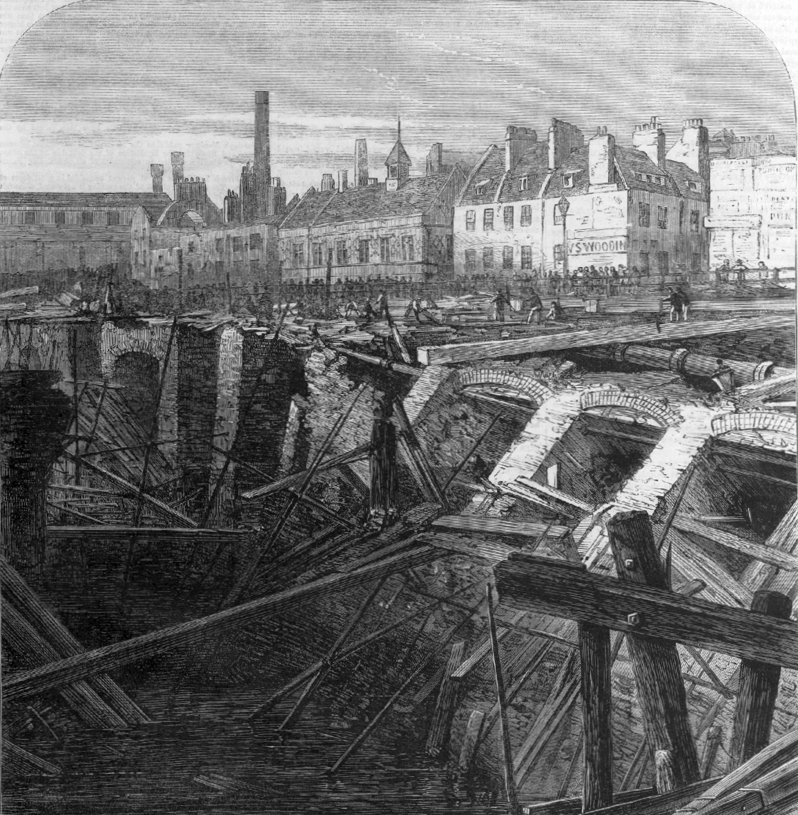 Damage caused by the collapse of the Fleet ditch into the cutting of the Metropolitan Railway near Farringdon station in June 1862. Illustration shows the trench wall destroyed by the flooding and temporary support work overturned. After repairs, the railway opened in 1863.